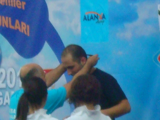 Nika Tvauri. Alanya, Turkey. World Games, IBSA, 1-10.04.2011